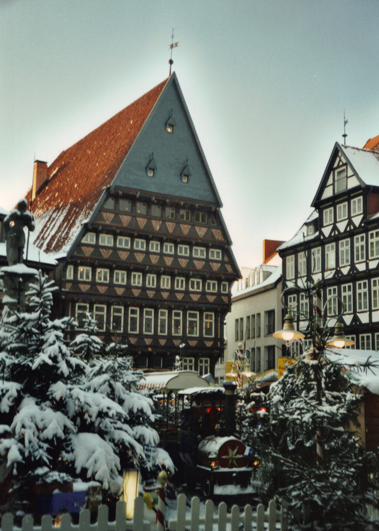 Christmas Market in front of the Butchers' Guildhall